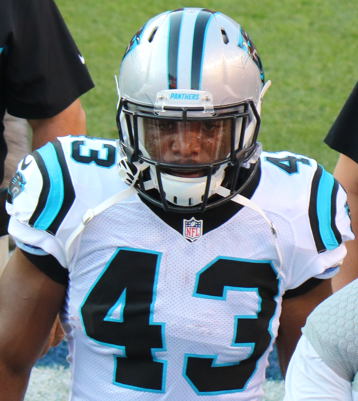 Fozzy Whittaker, a player on the National Football League.